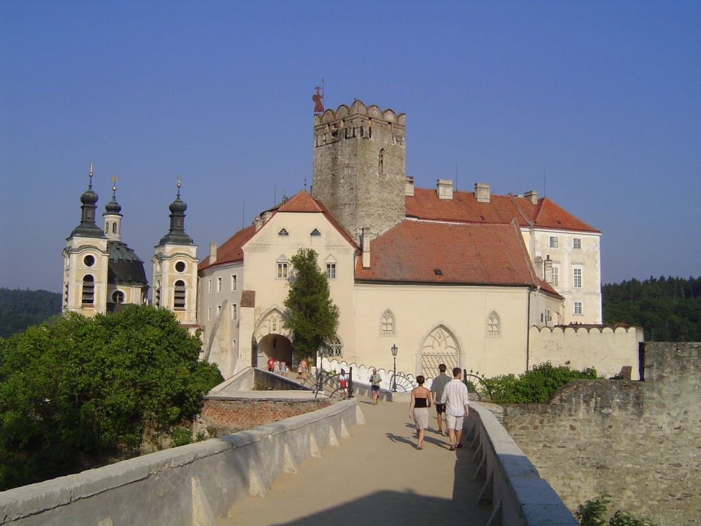 Vranov nad Dyjí Castle, Czech Republic.